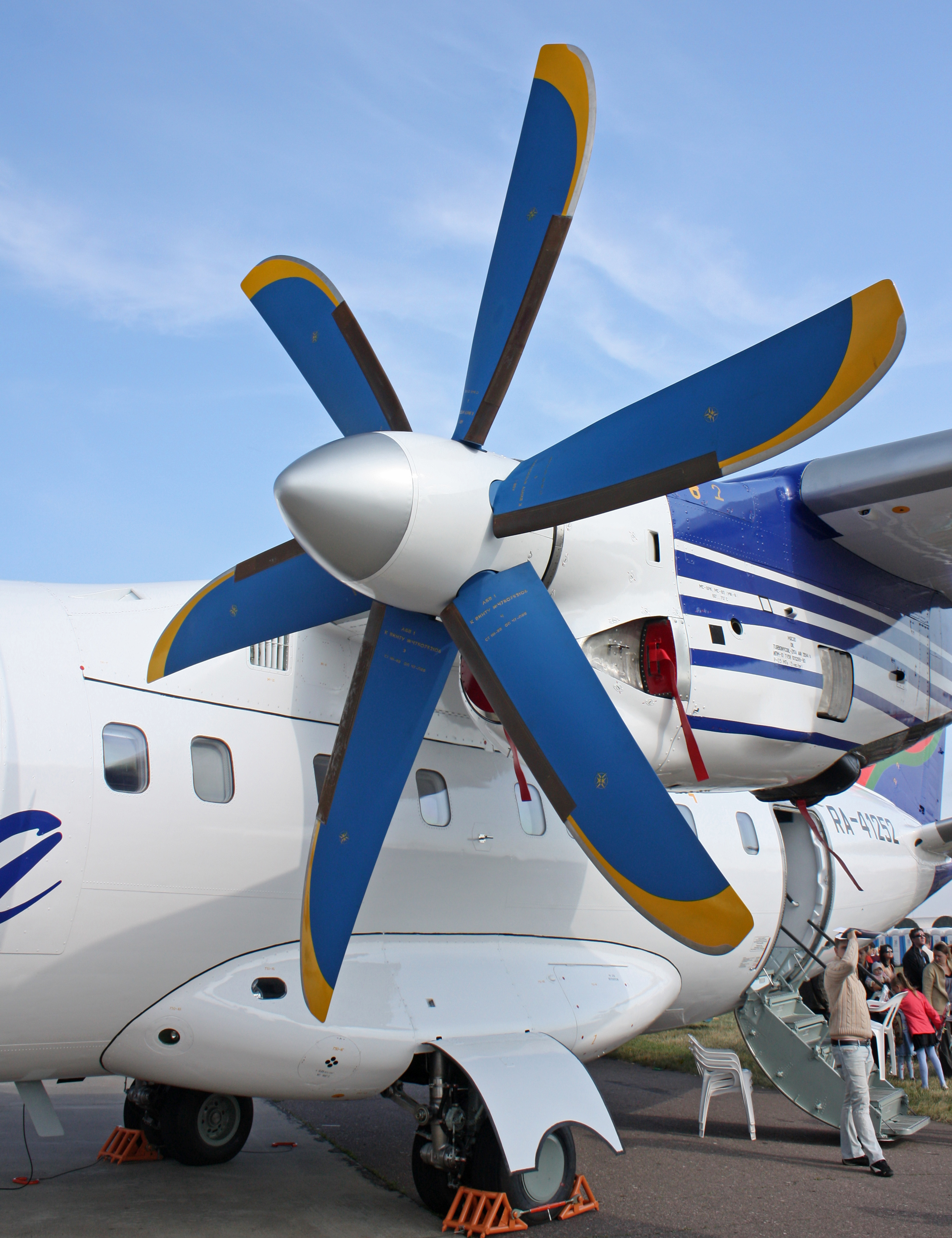 Propeller of the Antonov An-140-100 (The international aerospace salon MAKS-2009)